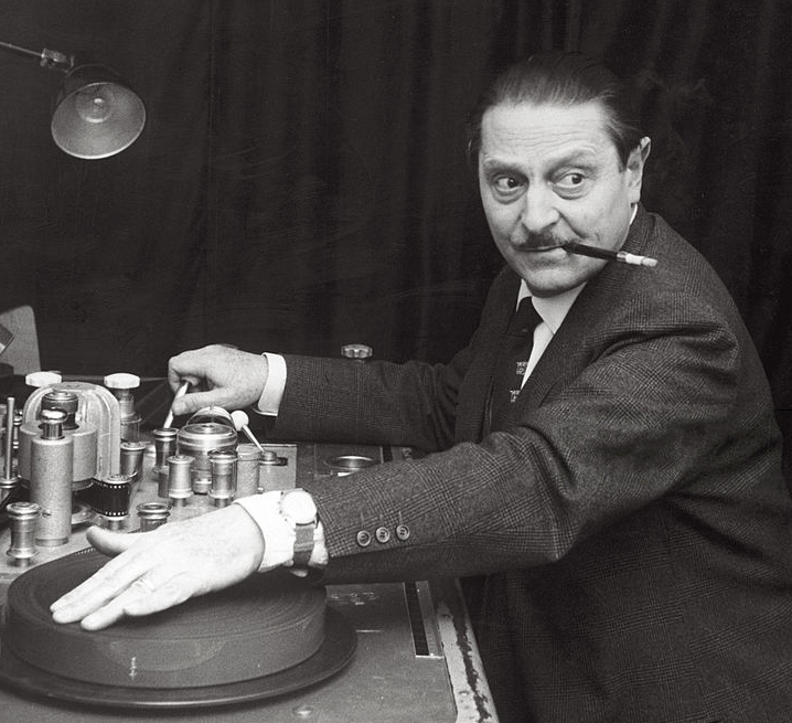 Italian director and scriptwriter Alessandro Blasetti working on the TV show Gli Italian del cinema italiano. Rome, April 1954